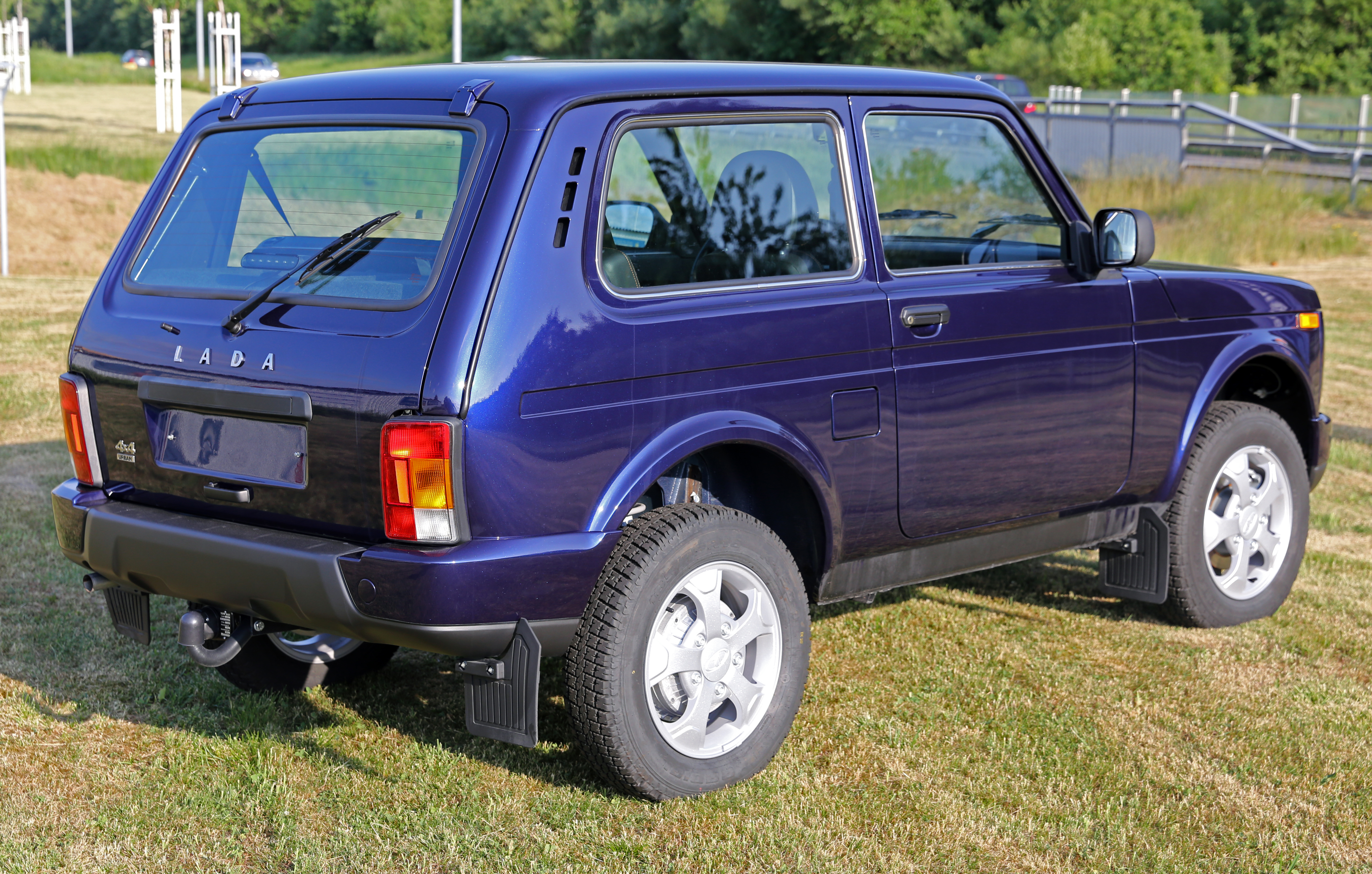 A 2016 Lada Niva Urban in Sweden. Apparently one can still buy a new Lada in Sweden, although I have never seen one in traffic. Not surprising, as only three new Ladas of all types were registered in 2016, an average of a half car per dealer. 36 were sold in 2015. This car is leased by the dealer themselves, not sure if that counts as a sale...